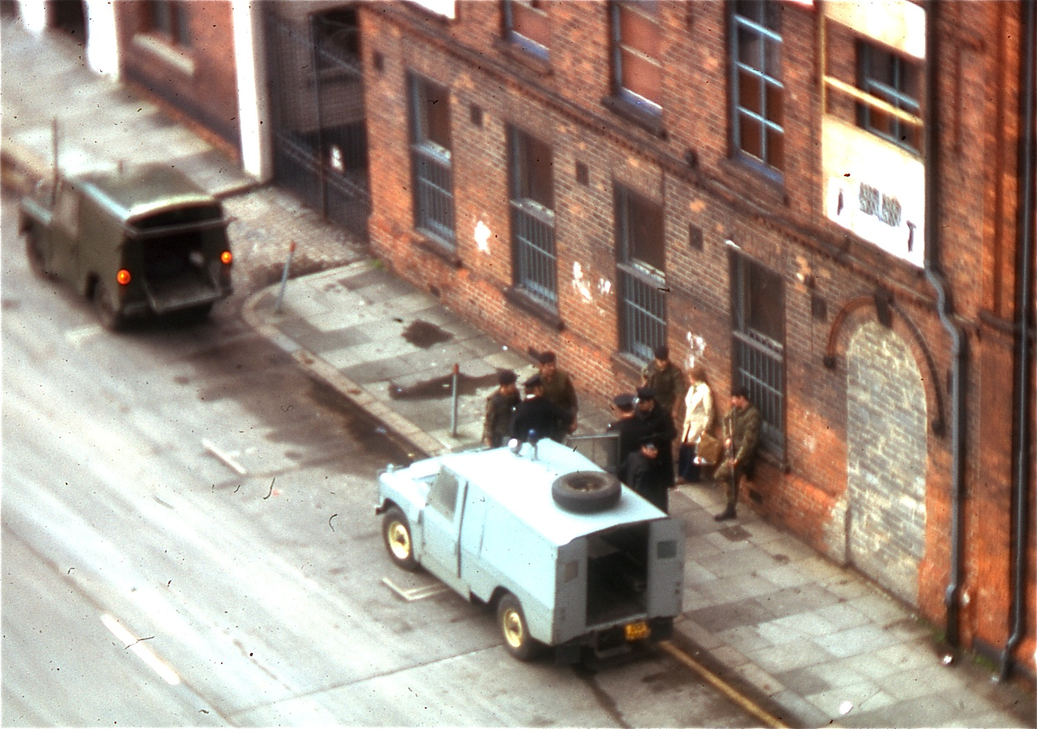 British troops and police, with two vehicles, investigate a couple on the street behind the Europa Hotel, 1974, during The Troubles. They were later taken away. Other information Photo by George Garrigues.